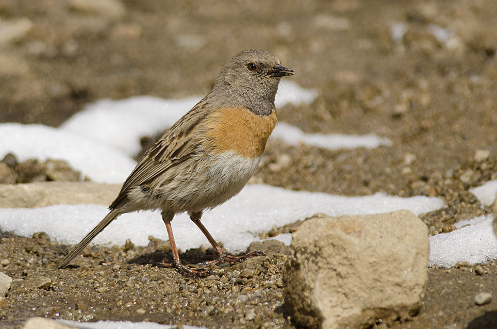 Robin Accentor, Khardung La, Ladakh, India